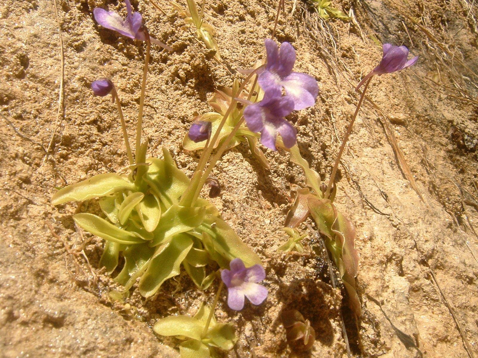 Pinguicula grandiflora (longifolia?) subsp. dertosensis. By Philipp Reinhold